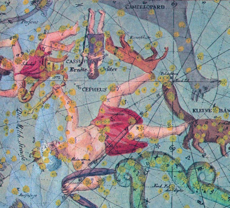 The constellation Custos Messium (Harvest Guardian), pictured in Vehrenberg edition (1973) of Johann Elert Bode’s Vorstellung der Gestirne (1782).